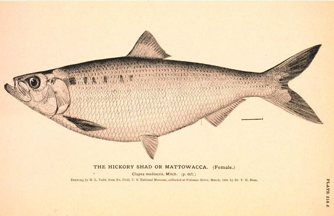 The Hickory Shad or Mattowacca (Female). Clupea mediocris =Alosa mediocris, Mitch.